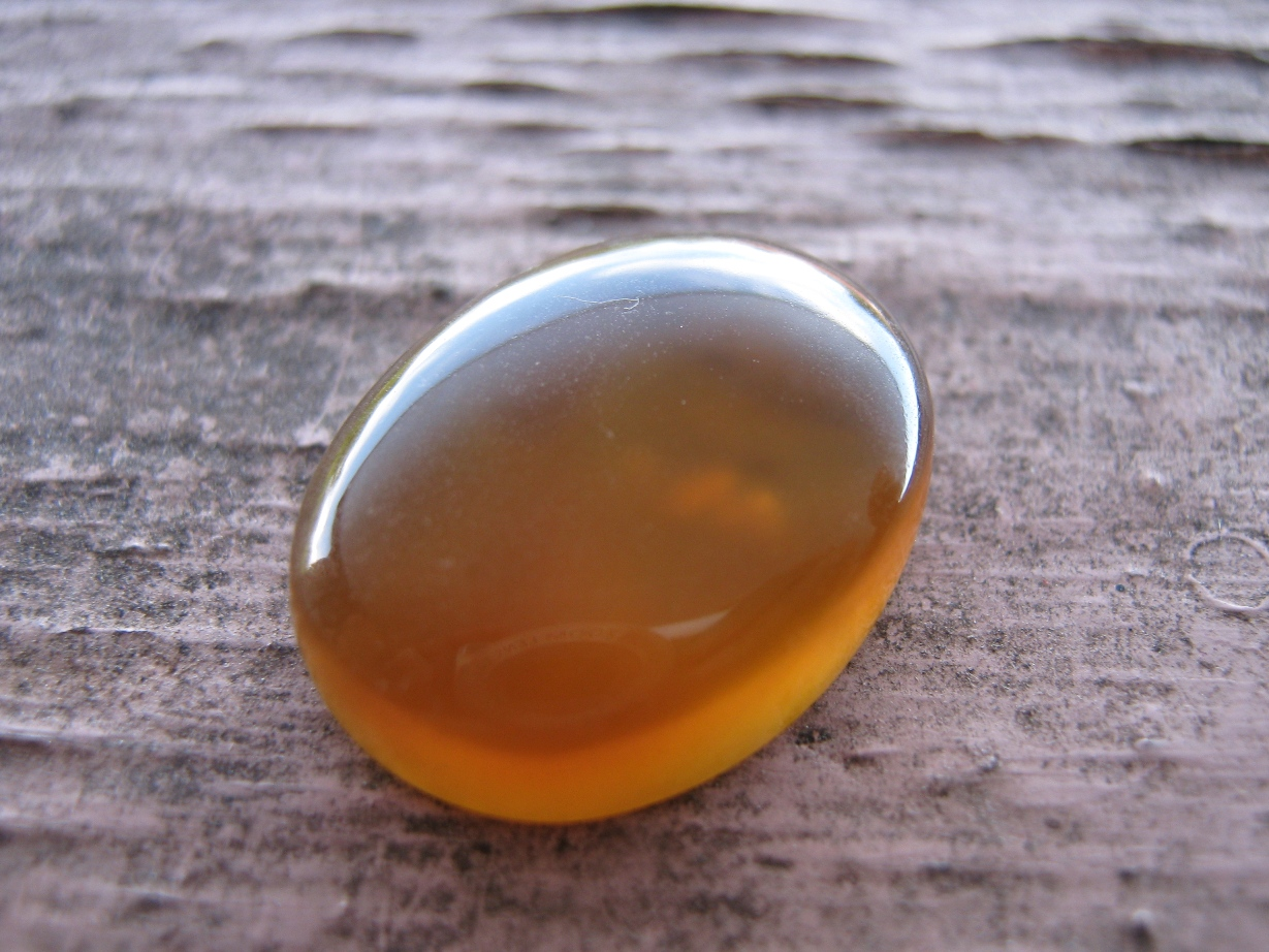 Borneo amber from Beradai Coal Mine, Merit-Pila, Sarawak, Malaysia. This amber is dated to the tertiary period, 15-17 millions years old. Apparently this amber was found in a coal seam which is dated to the middle Miocene epoch. Very tough but also very difficult to bring the mirror-like polished. This variety can withstand a lot of impact on hard floor.